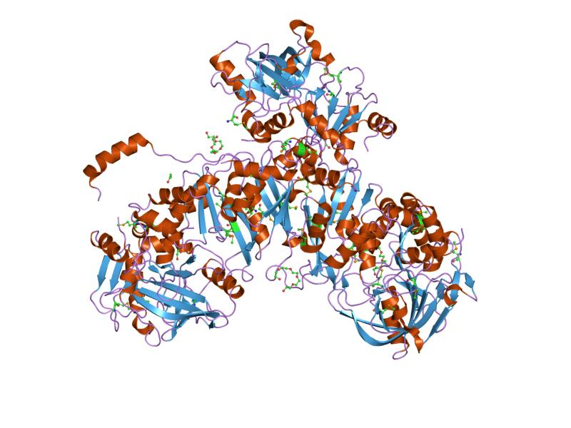 Cartoon representation of the molecular structure of protein registered with 2idb code.